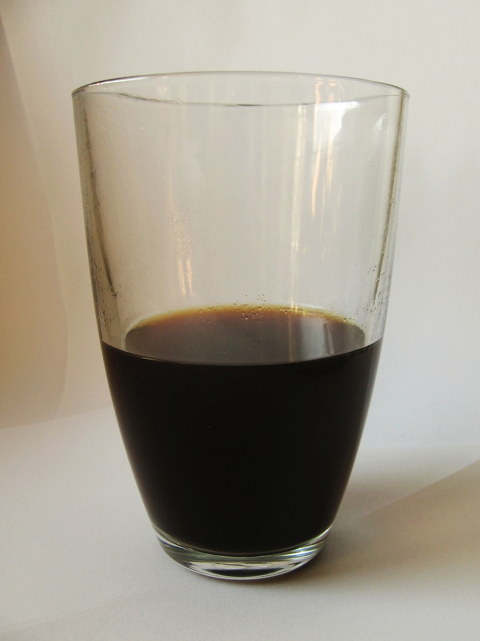 The brewed (by using moka pot) roasted grain beverage Kujawianka („kawa zbożowa” in Polish), powder contained: roasted: rye (60%), barley (20%) chicory and sugar beet. Made by Polish brand Bakalland.